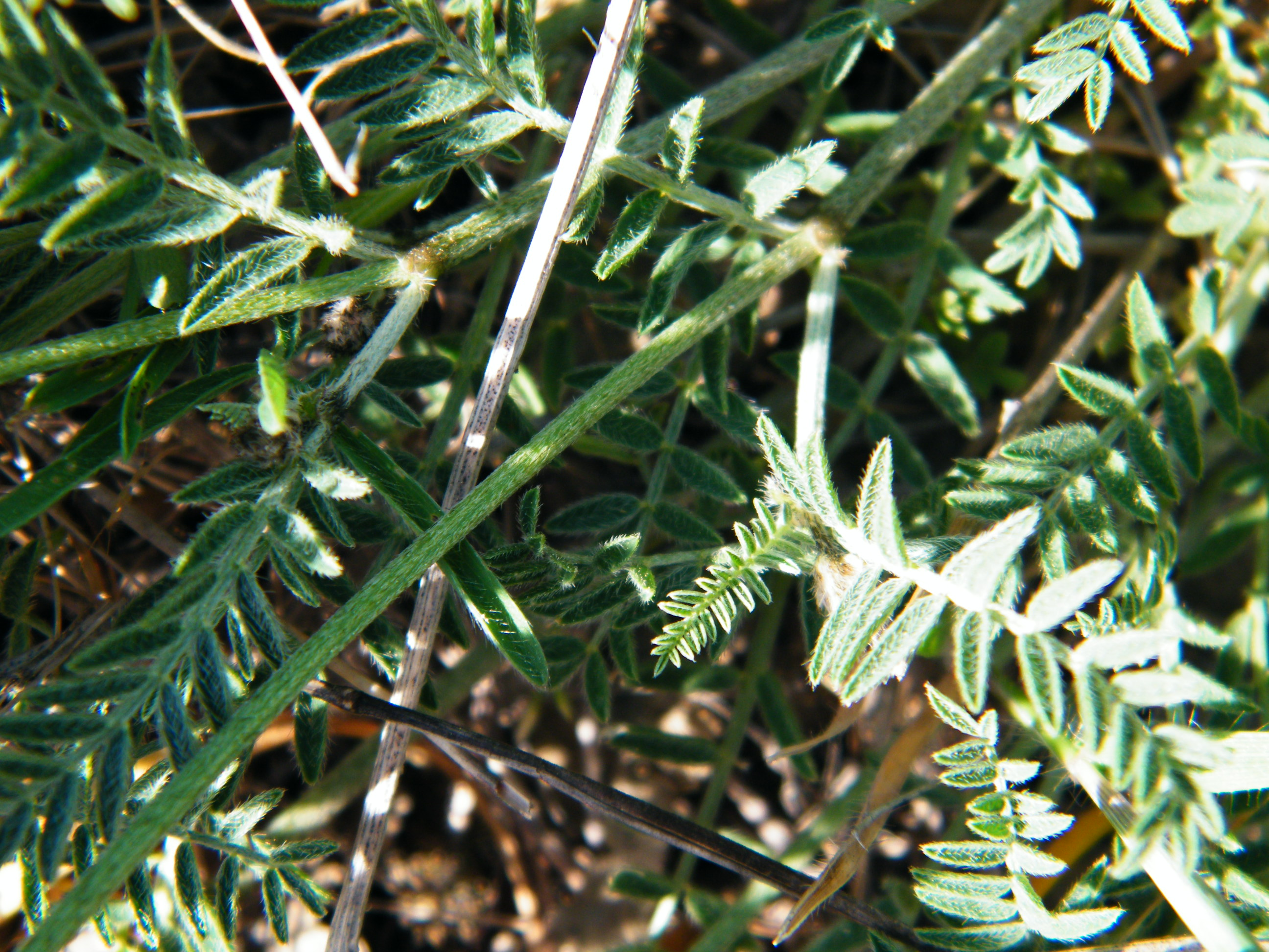 Astragalus onobrychis in Laspi Bay